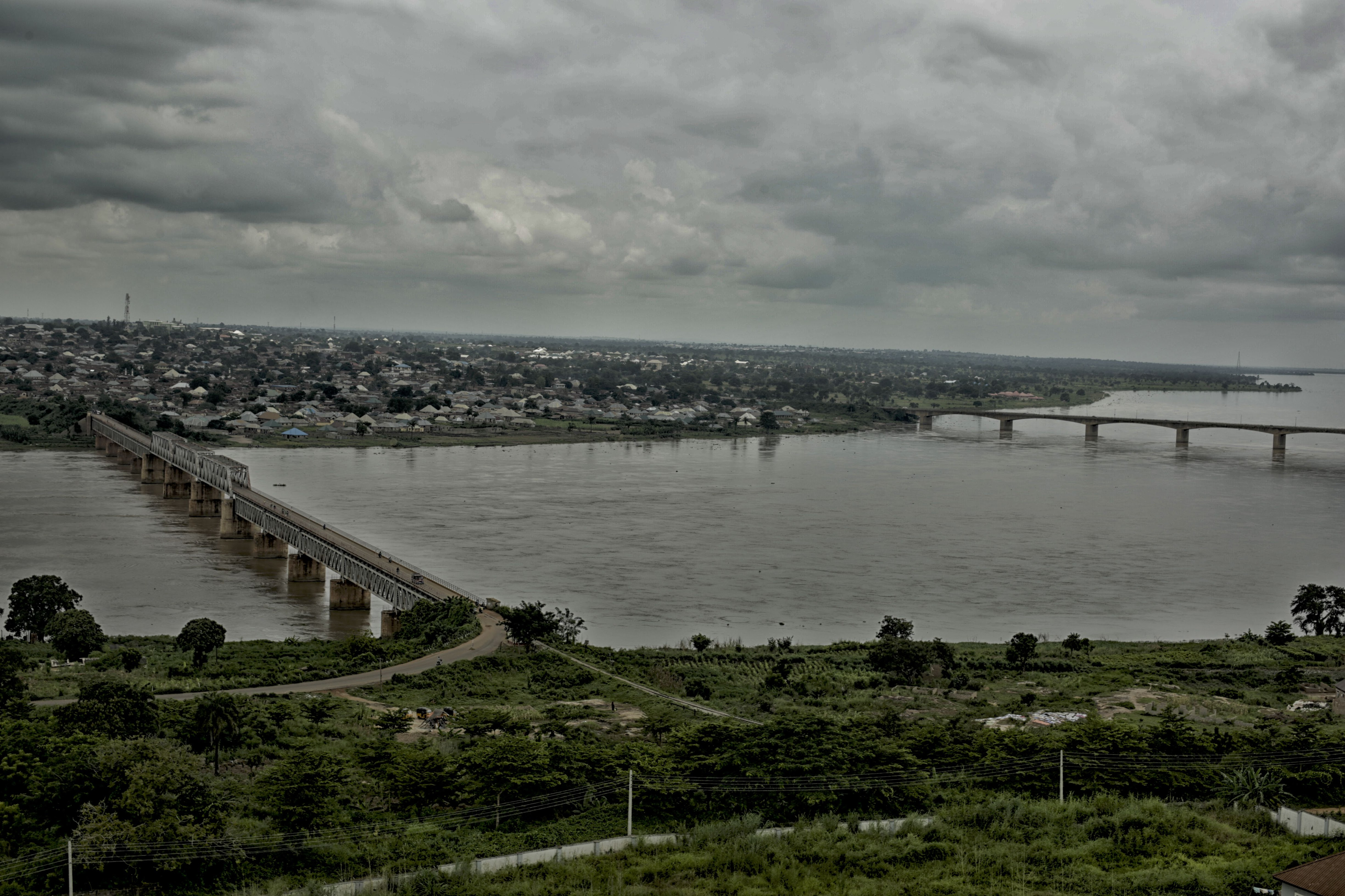 The River Benue flowing through MAKURDI. Taken by Bandele Femi